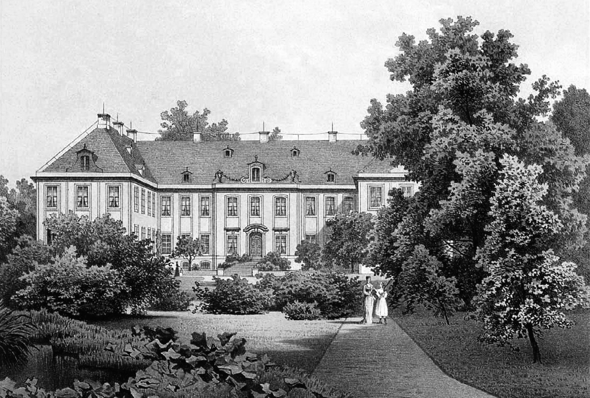 Manor in Pobiedna Unięcice